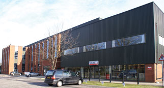 This is a photograph of the Nisbets headquarters at 4th Way, Avonmouth.